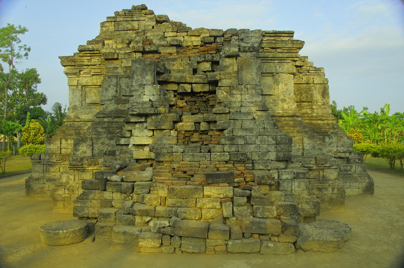 Candi Cungkup Sanggrahan, Boyolangu, Tulungagung, Jawa Timur.